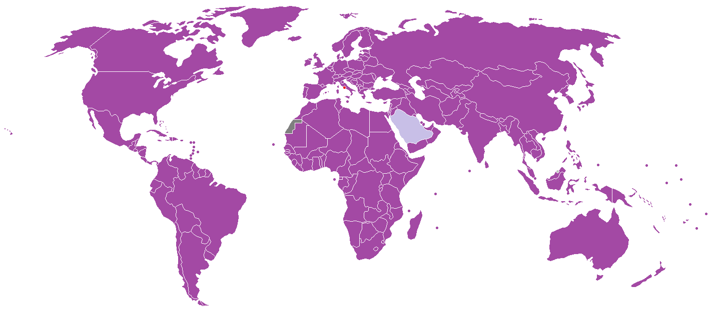 This map indicates the women's right to vote in the world. prohibition authorized but with limitations locally authorized (no national elections) completely authorized